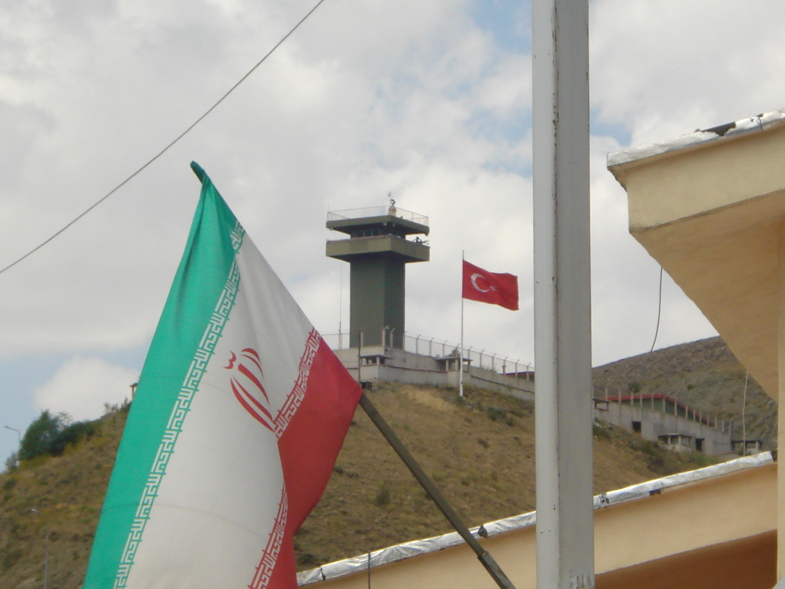 iran border falg